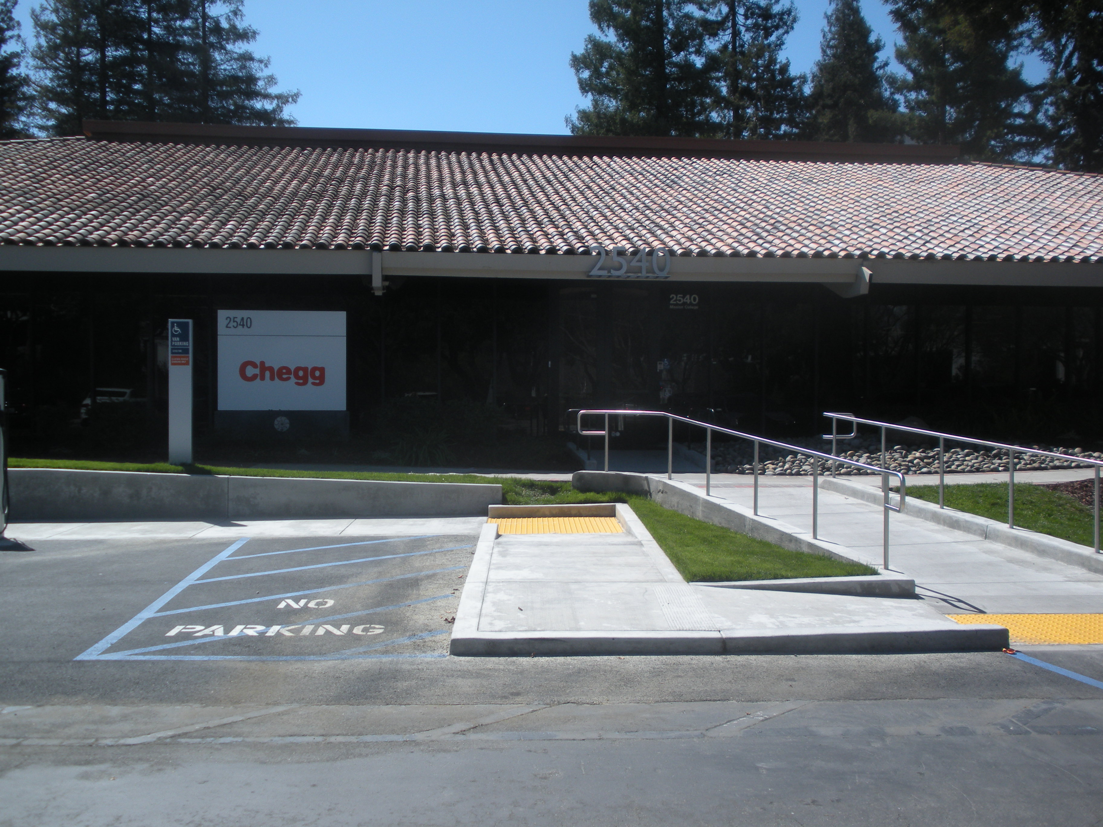 The Chegg headquarters in Santa Clara, California. Originally posted to my Flickr